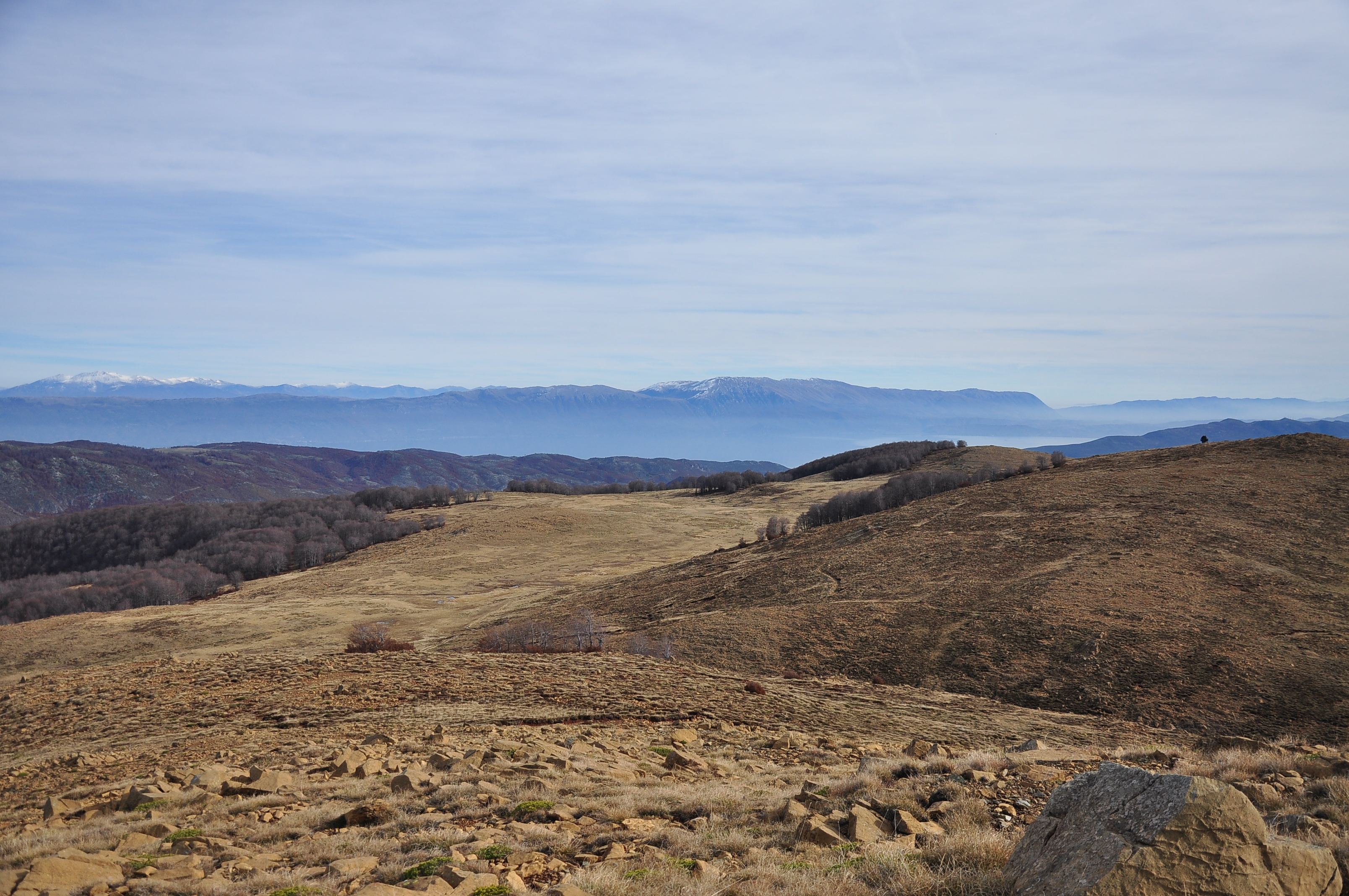 The view from Shebenik Mountain looking towards Lake Ohrid